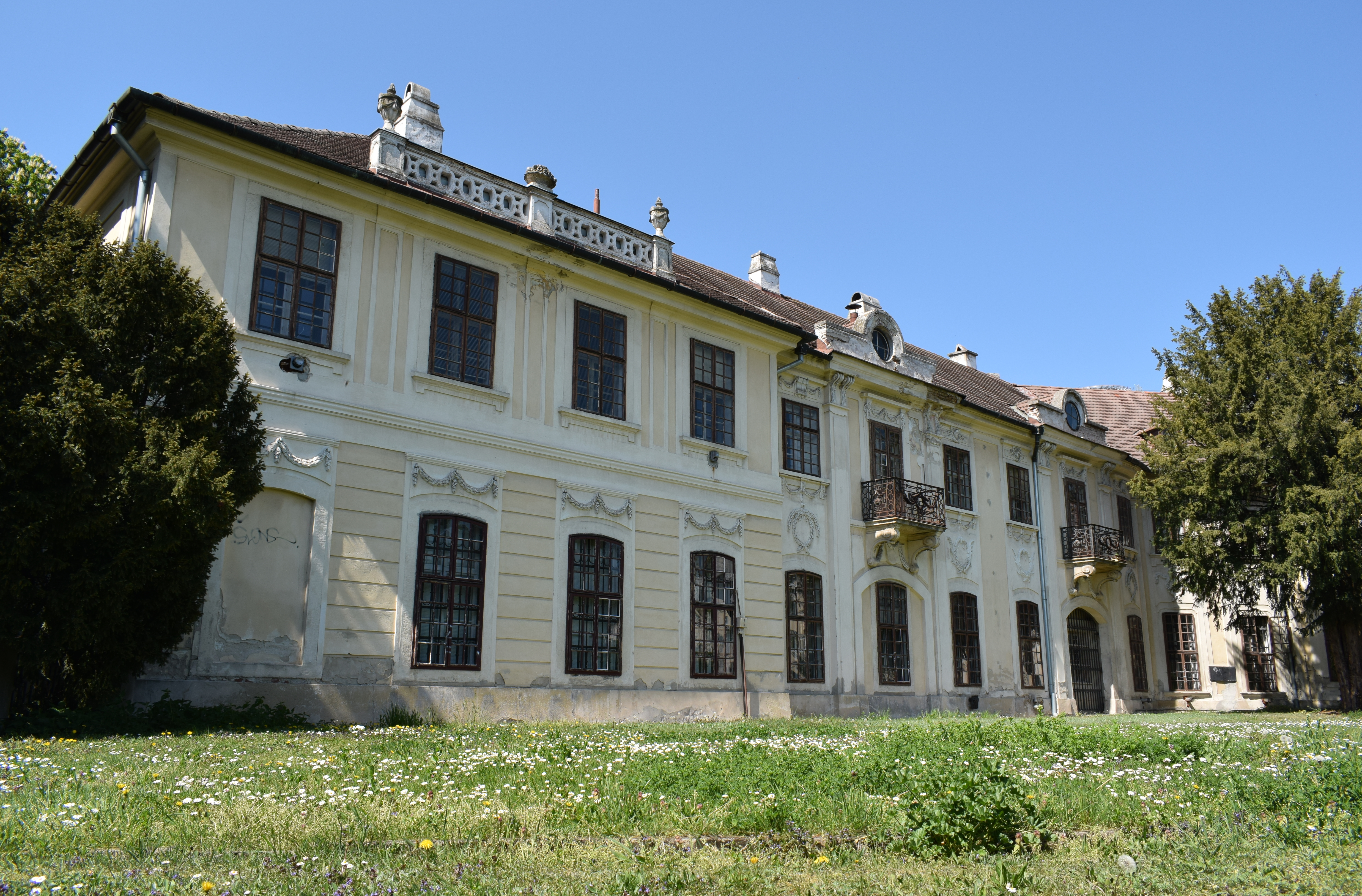 Garden facade of the Aspremont Summer Palace in Bratislava. Built by Count Johann Nepomuk Gobert von Aspremont-Linden in 1770, designed by Joseph Tallher in Viennese Late Baroque style.